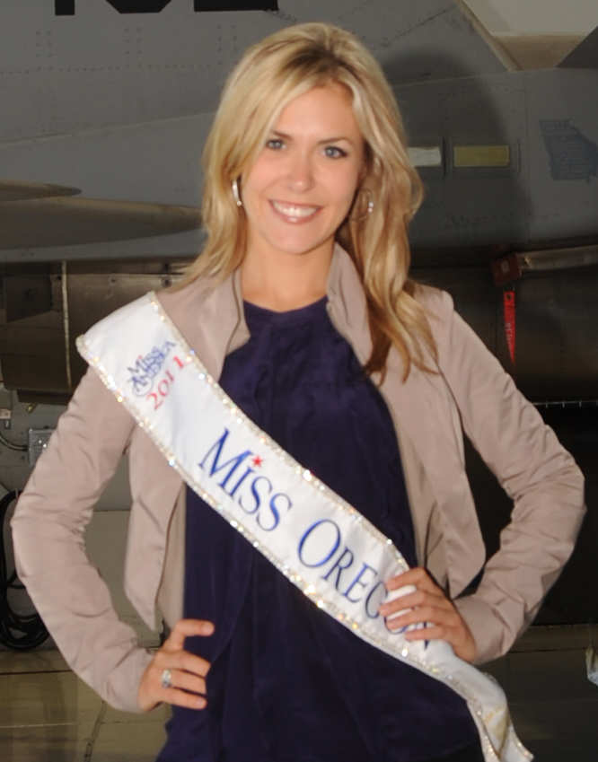 Caroline McGowan, Miss Oregon 2011, stands in front of a F15 tail fin in the main hanger of the 142nd Fighter Wing Portland Air National Guard Base, August 24, 2011. McGowan was crowned on July 1st, and has been busy getting used to all of her new responsibilities with being the new Miss Oregon.